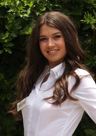 Miss Poland 2008 Klaudia Ungerman during Miss World 2008 in Johannesburg